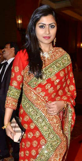 Rimi Sen at Bappi Lahiri wedding